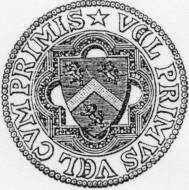 Hatfield College original coat of arms Retagged as PD-old per [1], retrieved 16 May 2007 - "The original 1846 crest of Hatfield Hall (as it was called until 1919) consisted of the basic shield of Bishop Hatfield surrounded by a design converting the shield into a circular design and encircled by the Motto – Vel Primus Vel cum Primis". It appears that this representation of the arms is at least 150 years old; and it is not the current arms or logo of any family or organisation. TSP 19:19, 16 May 2007 (UTC)